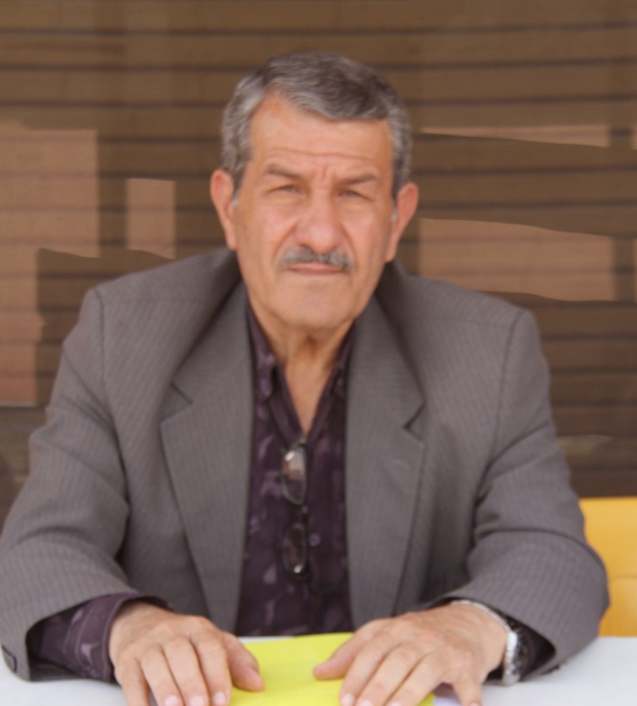 Goodarz Habibi